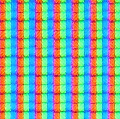 Subpixel and pixel structure of a common LCD TV monitor. A pixel (square) is made from six (necessarily rectangular) subpixels, 2 red, 2 green, 2 blue. This picture was taken from a Sharp Aquos LC-32BV8E in a white scene.